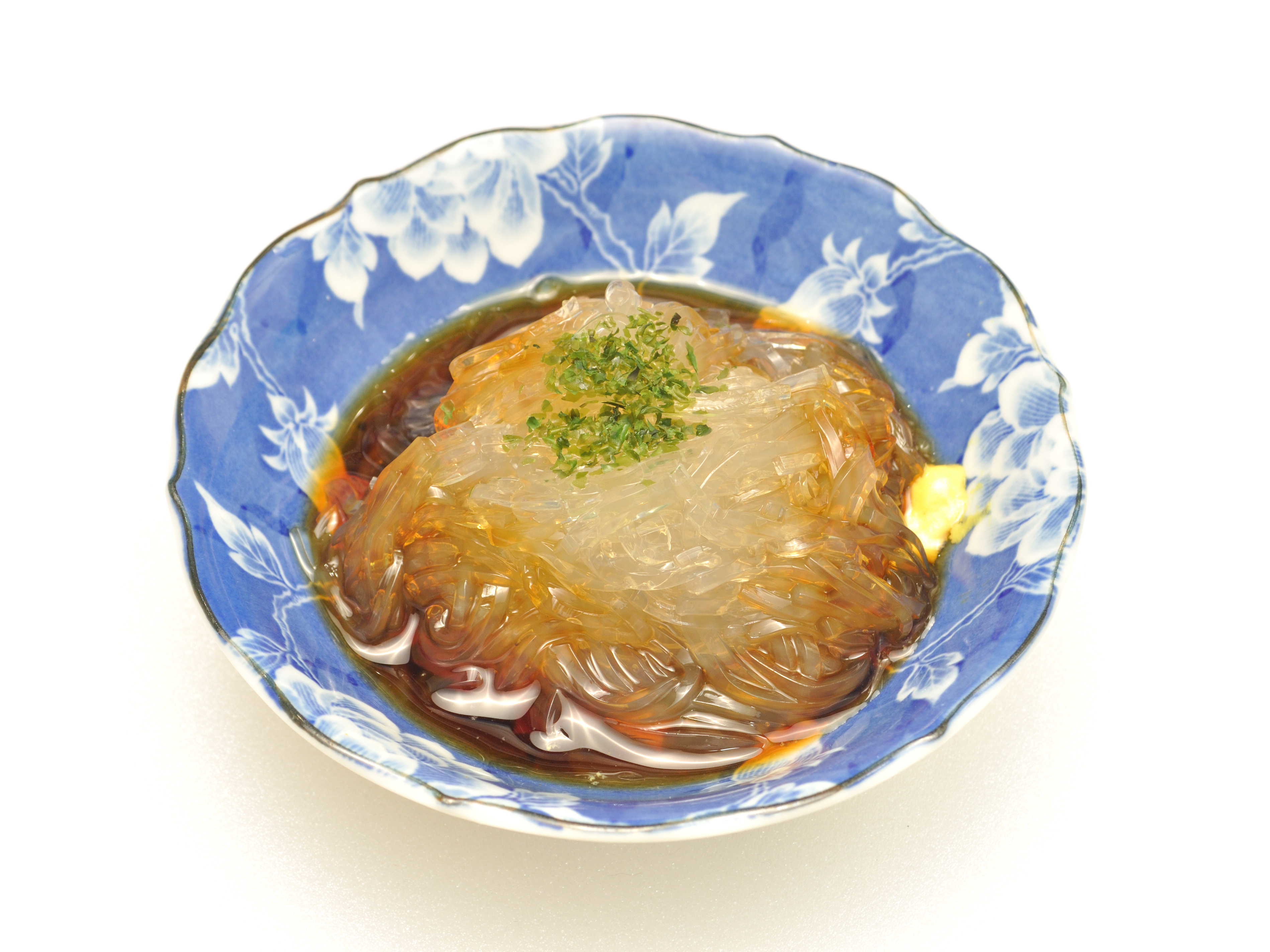 Typical example of Tokoroten.